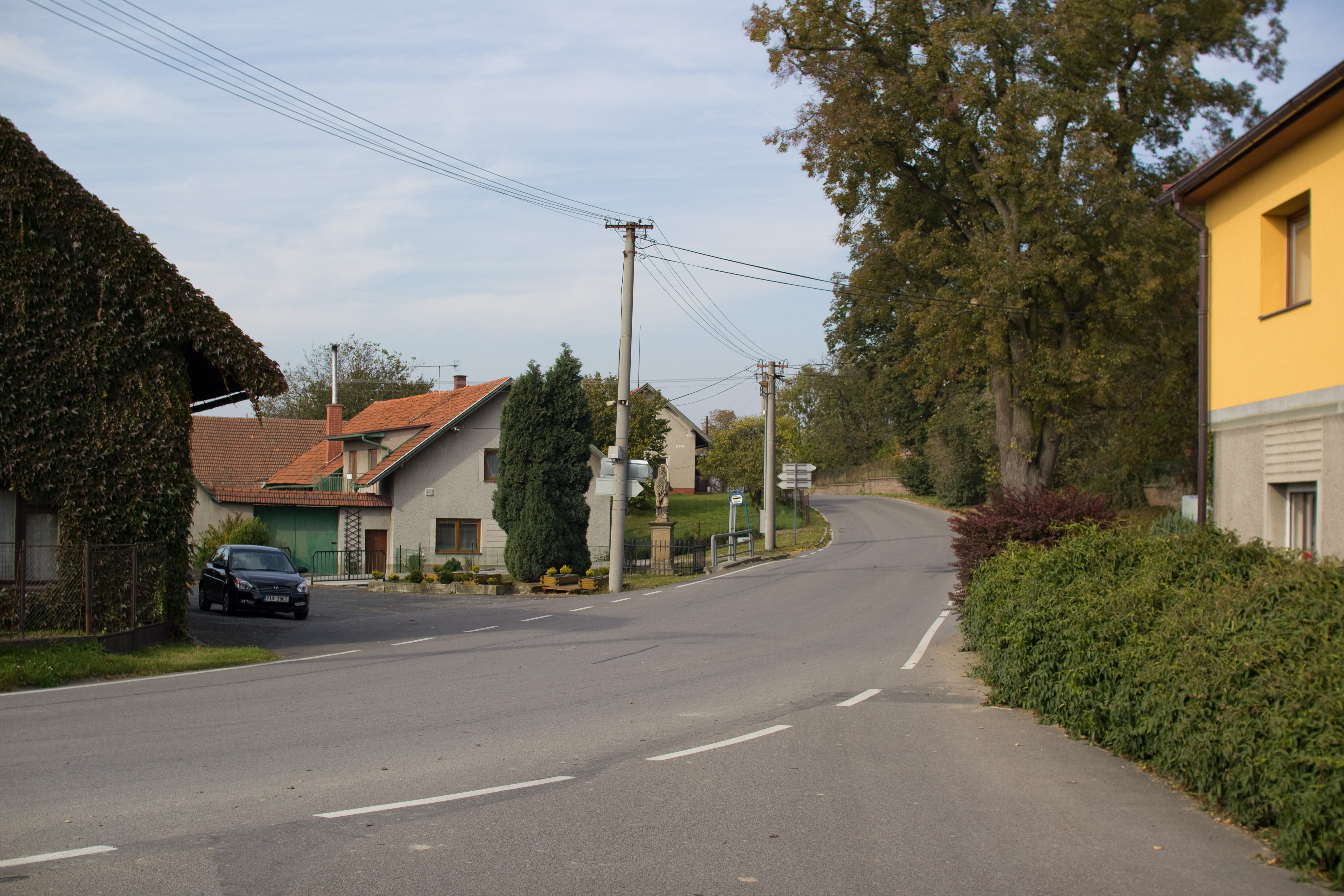 Road, Krchleby, Rychnov nad Kněžnou District, Hradec Králové Region